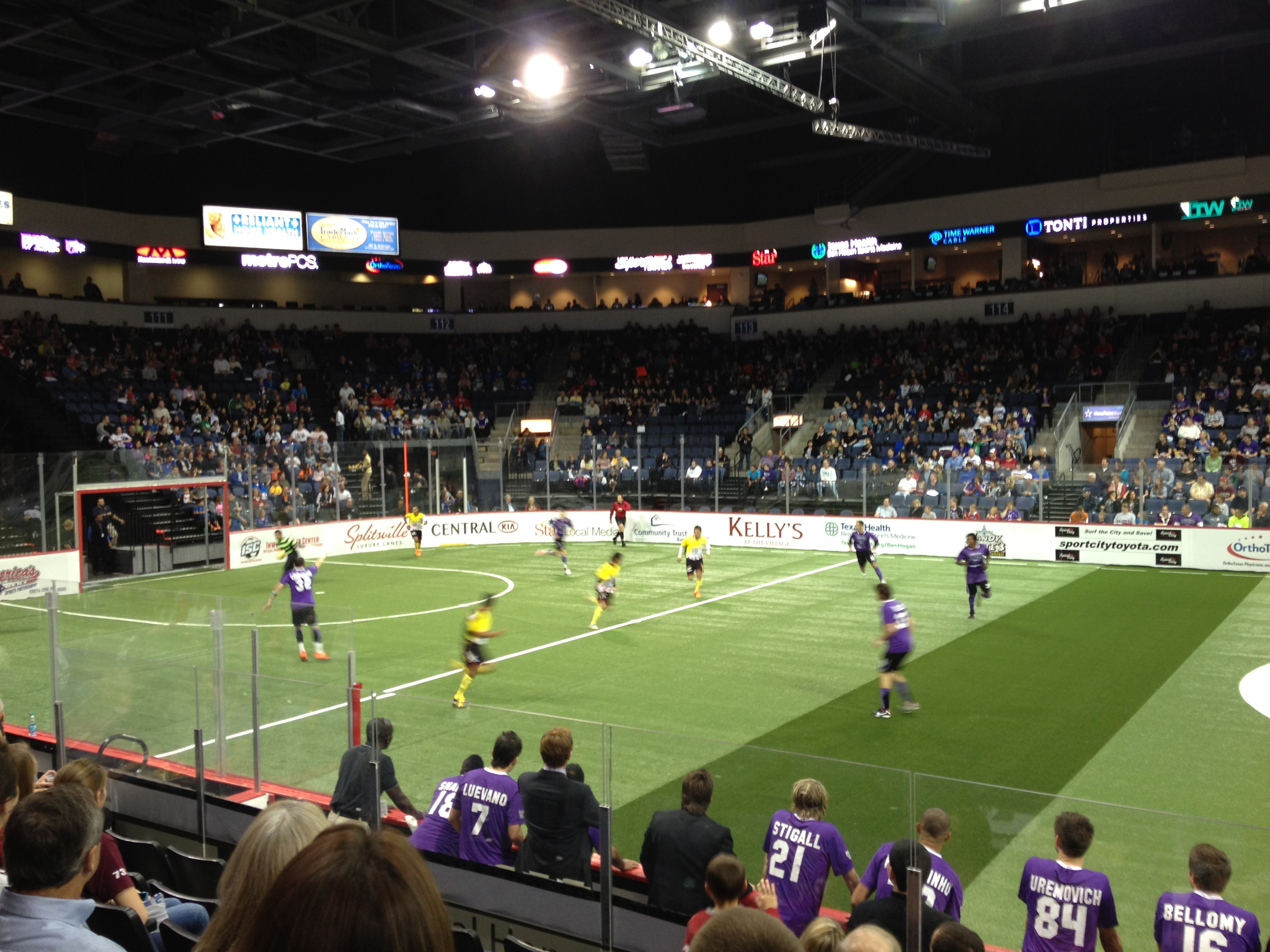 The new Dallas Sidekicks during their match against the Rio Grande Valley Flash on November 30, 2012, at the Allen Event Center in Allen, Texas.